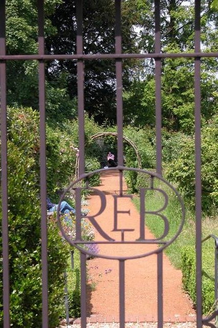 Petersfield Physic Garden. This 1/4 acre garden is planted in a style familiar to John Goodyer, the distinguished 17th century botanist, who lived in Petersfield. It was given to Hampshire Gardens Trust in 1988 by Major John Bowen. Today it is a popular place for workers to come and eat their lunch, being only a few yards from the rown centre.